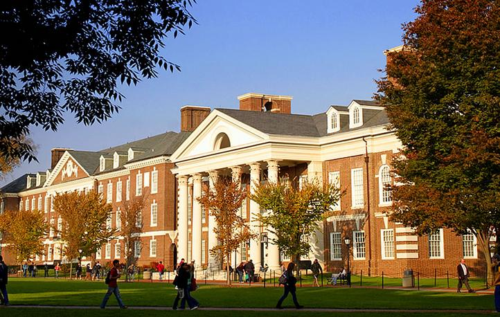 Image from Univ of Delaware's Campus